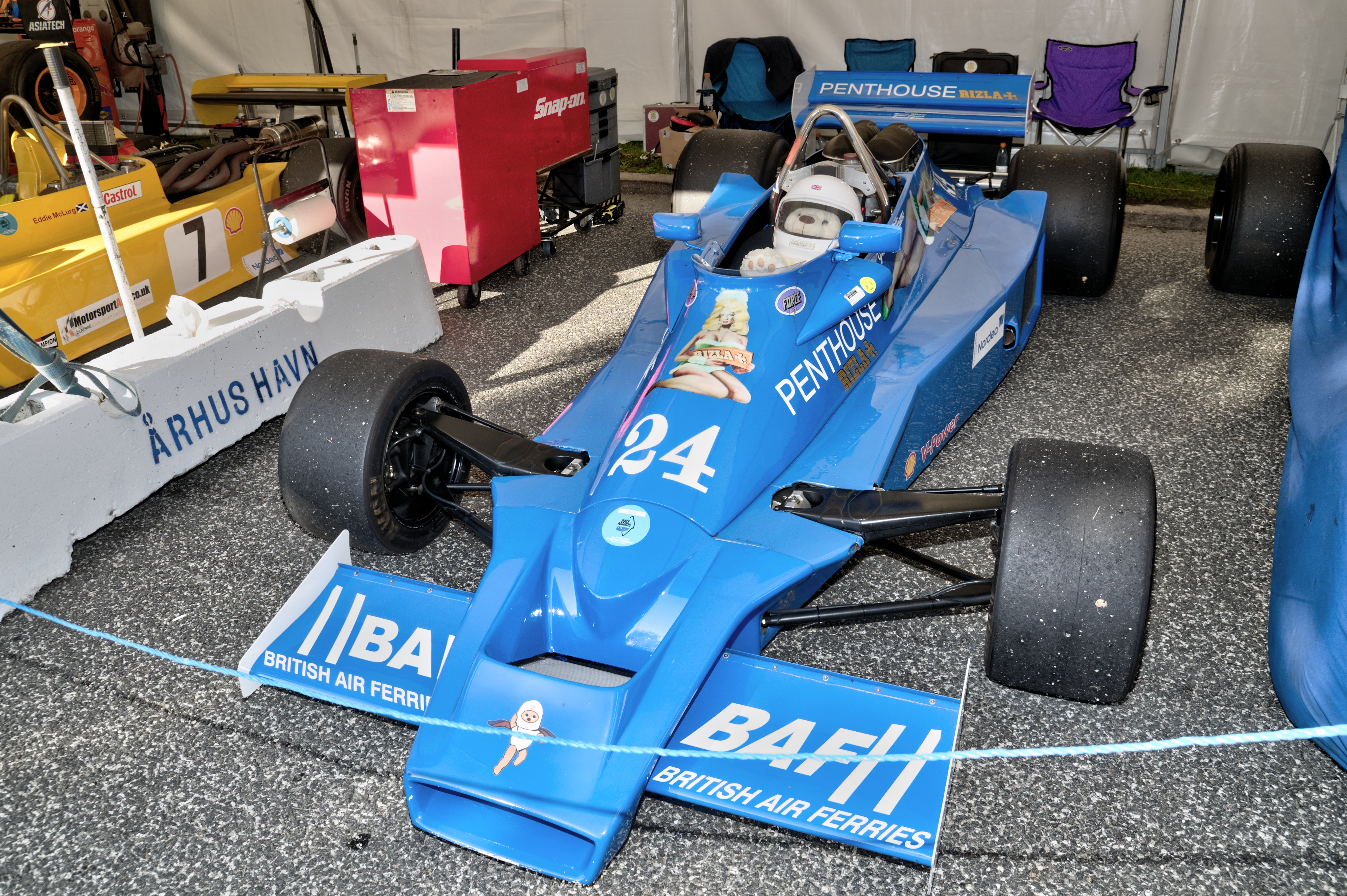 1977 Hesketh 308E, driven by Graham Williams in the Formula 1 show class of the 2014 CRAA classic race in Aarhus. The Hesketh formula one team is without a doubt best known for being the team of James Hunt in 1973-75 (racing in Heskeths 308, 308B and 308C), but after Hunt's departure, things went rapidly downhill. By 1976 the model name had reached 308D and no less than 4 different drivers took turns trying to get the car to perform - the typical results would be DNQs and DNFs, with a 7th place for Harald Ertl being the best result of the season. The 1977 car was named 308E (this one) and the best result would once again be a 7th place, this time by Rupert Keegan in the 24 car (this one) at the Austrian grand prix. For 1978 Hesketh was down to a single car (308E), barely evolved from the model of the previous year. After 3 different drivers had failed for the first 6 races of the season (3 DNQ, 3 DNPQ and 1 retirement) the team finally folded. This car is almost as politically incorrect as it gets: sponsored by Penthouse (with models on the front and sides) and Rizla, the cigarette paper brand. Yes, the times have certainly changed since 1977. These two sponsorships are of course no coincidence, as the Hesketh team had an image strongly associated with a lifestyle full of champagne, luxury hotels and "beautiful women"